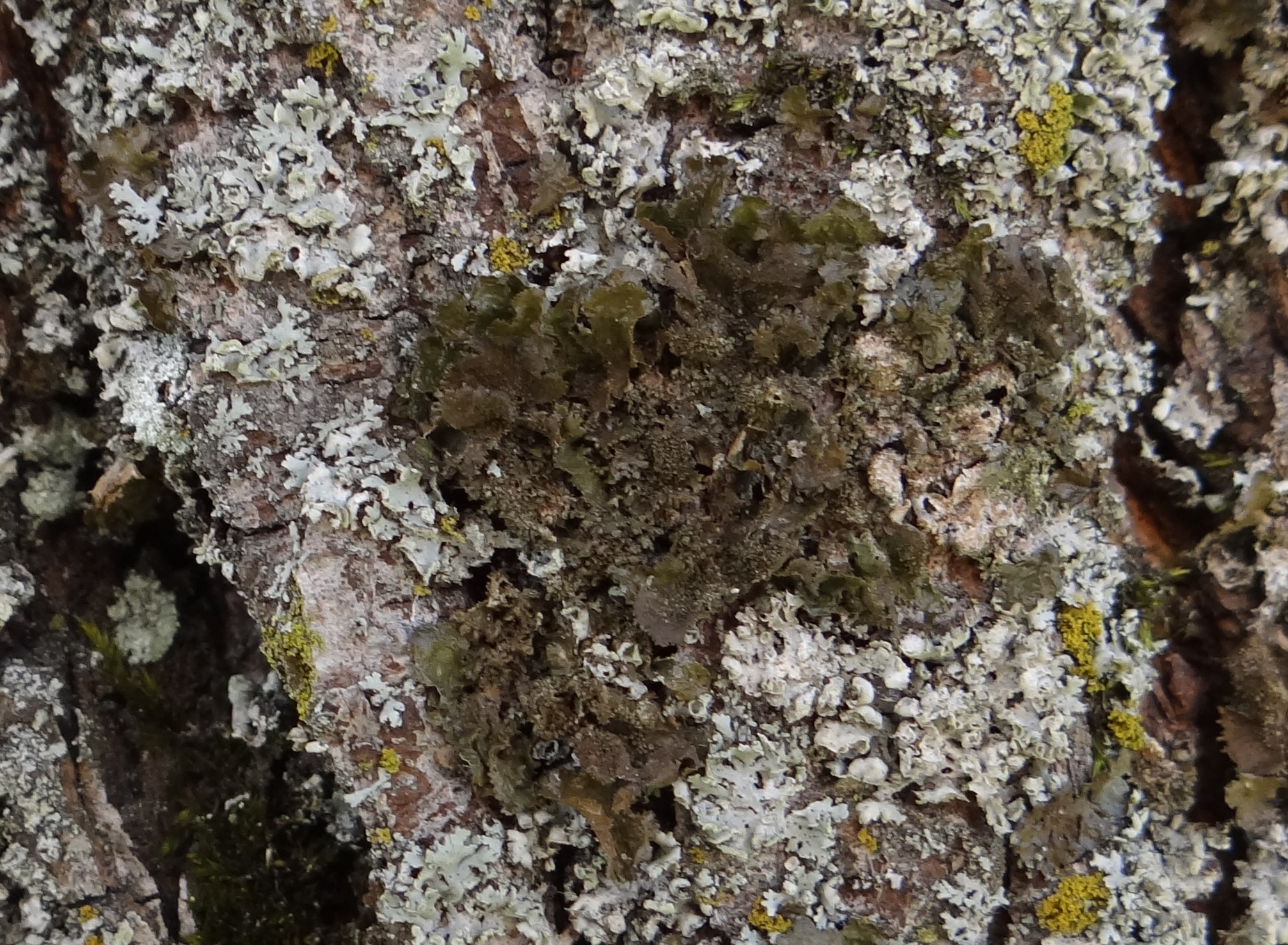 Melanohalea exasperatula (green) and Physcia dubia (gray)